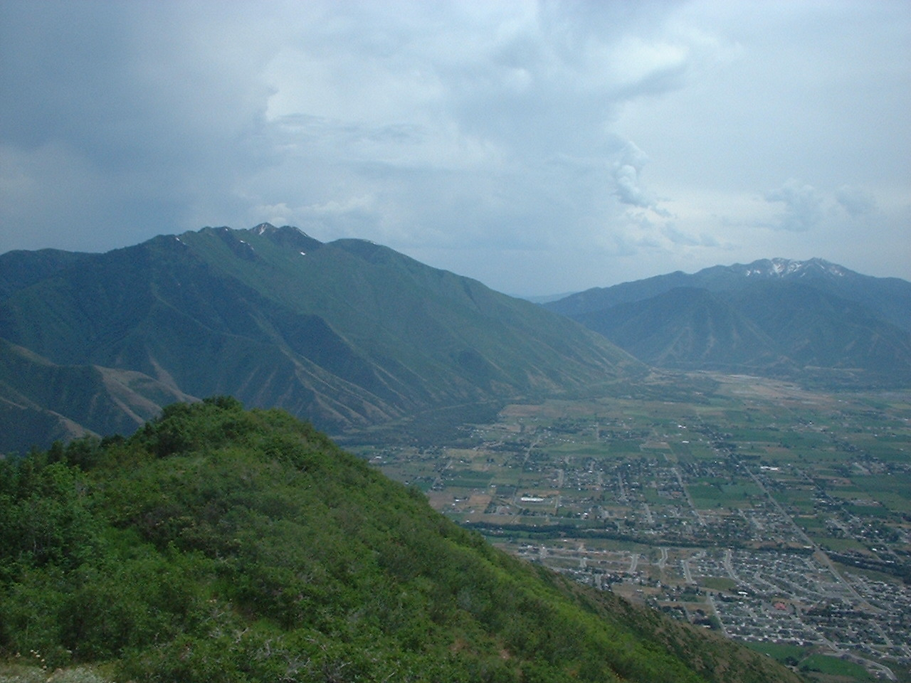 Looking down on east Mapleton and the East Bench in southern Utah Valley from near Camel Pass in June 2004. The green strip running horizontally through the lower right is Hobble Creek. On the left is Spanish Fork Peak and Loafer Mountain near the right, with the mouth of Spanish Fork Canyon in between.